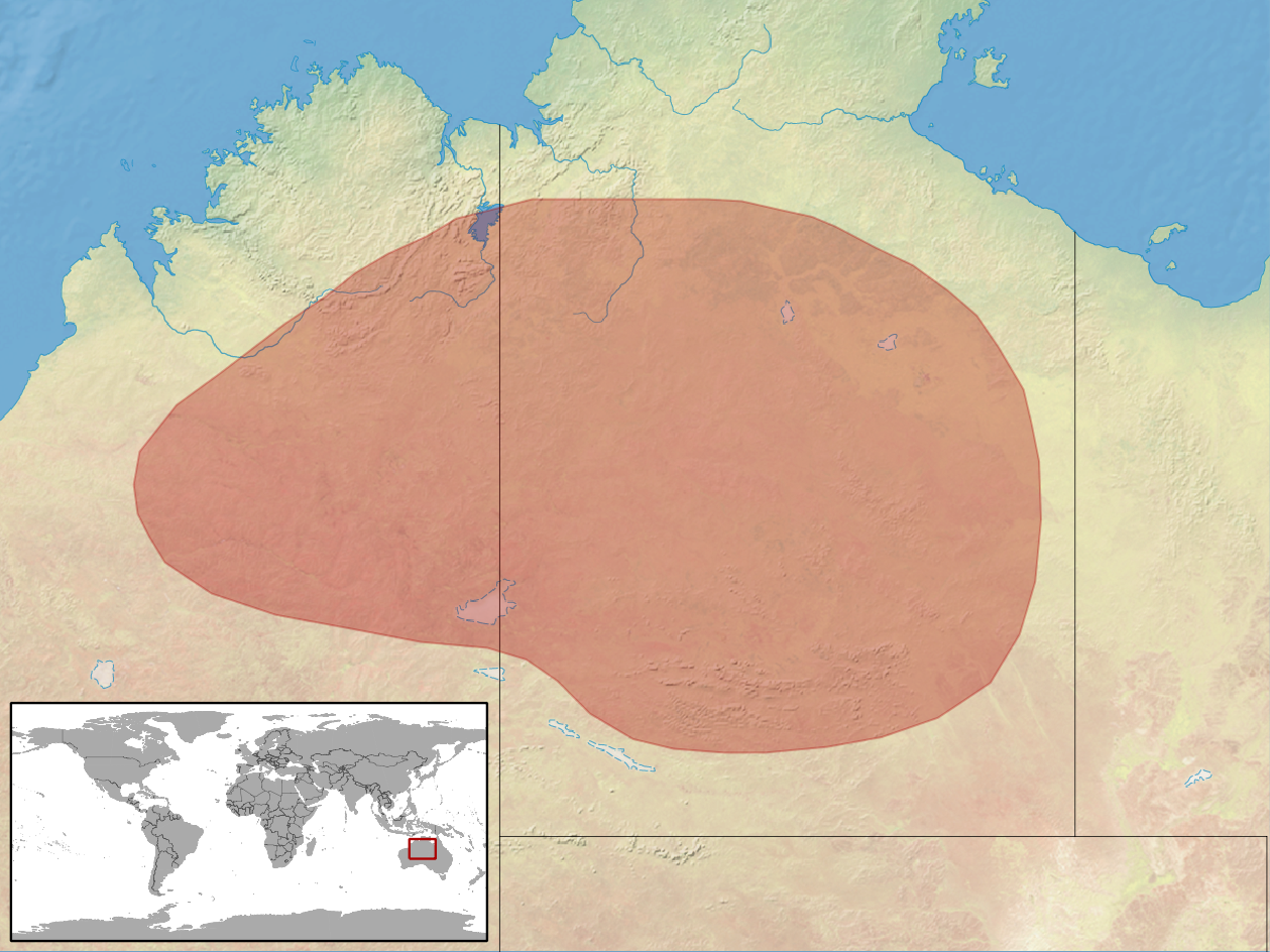 geographic distribution of Diporiphora lalliae (Native: Australia (Northern Territory, Western Australia))